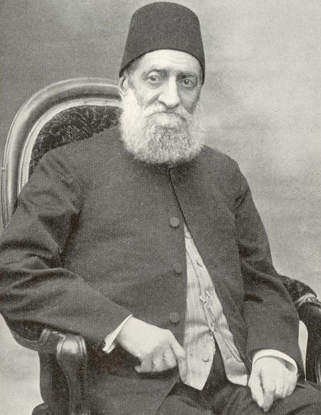 The awakening of Turkey: a history of the Turkish revolution By Edward Frederick Knight, page 256